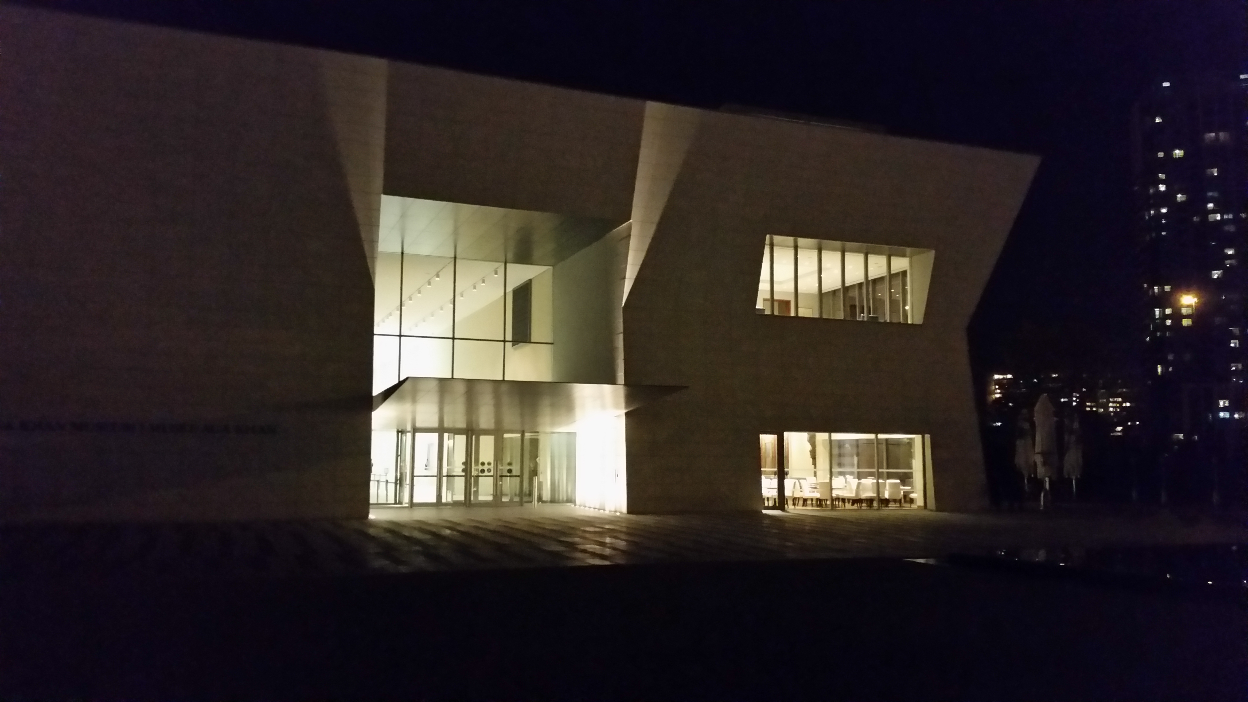 The stark white entrance to the museum at night